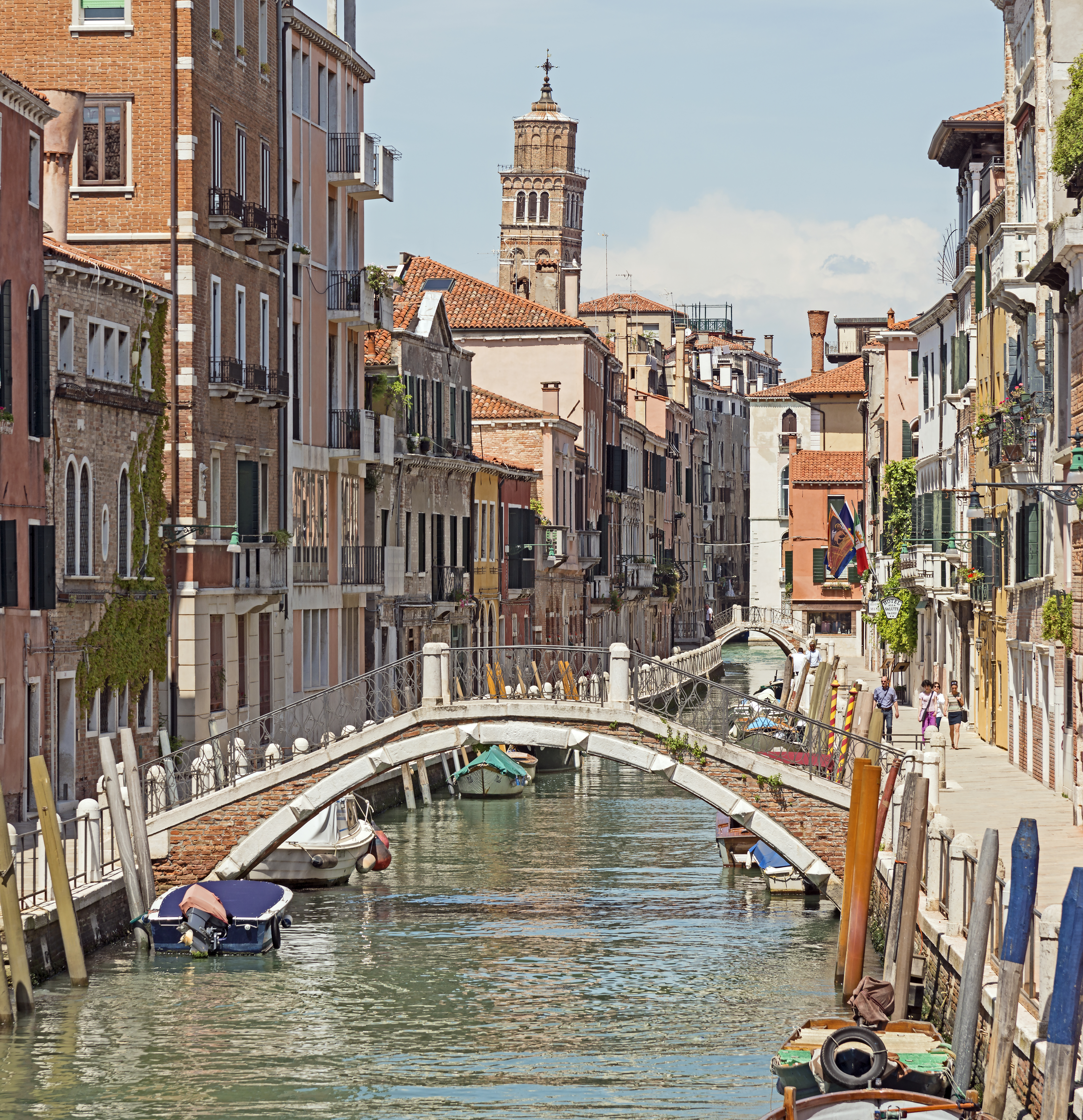 Ponte Santi on Rio della Fornace - Venice